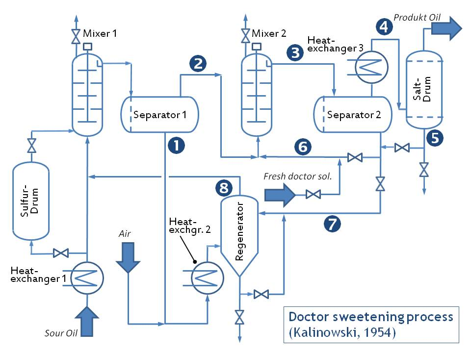 Doctor Sweetening Process: Process flow scheme upon Kalinowski